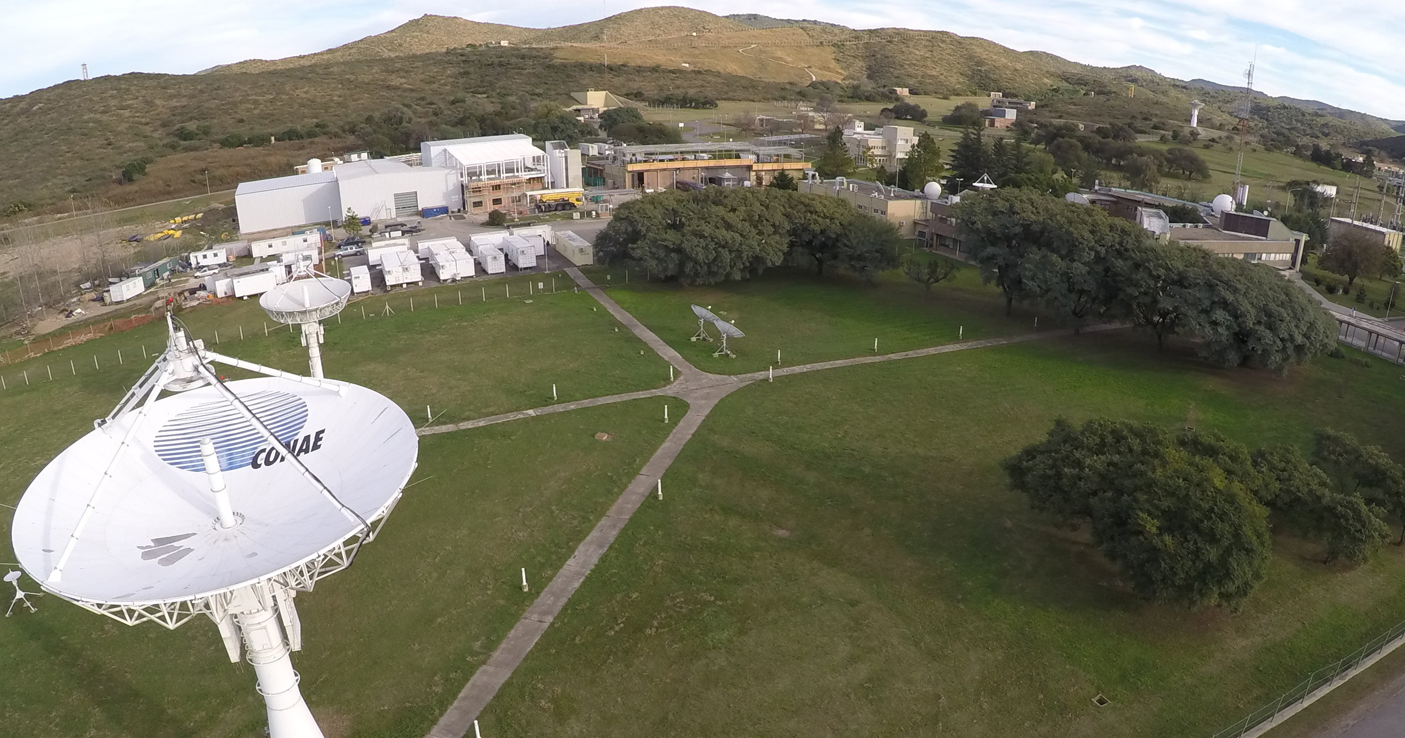 General view of the Teófilo Tabanera Space Center.